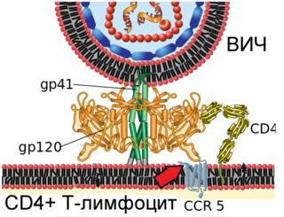 Mechanism of Viral Entry/Membrane Fusion